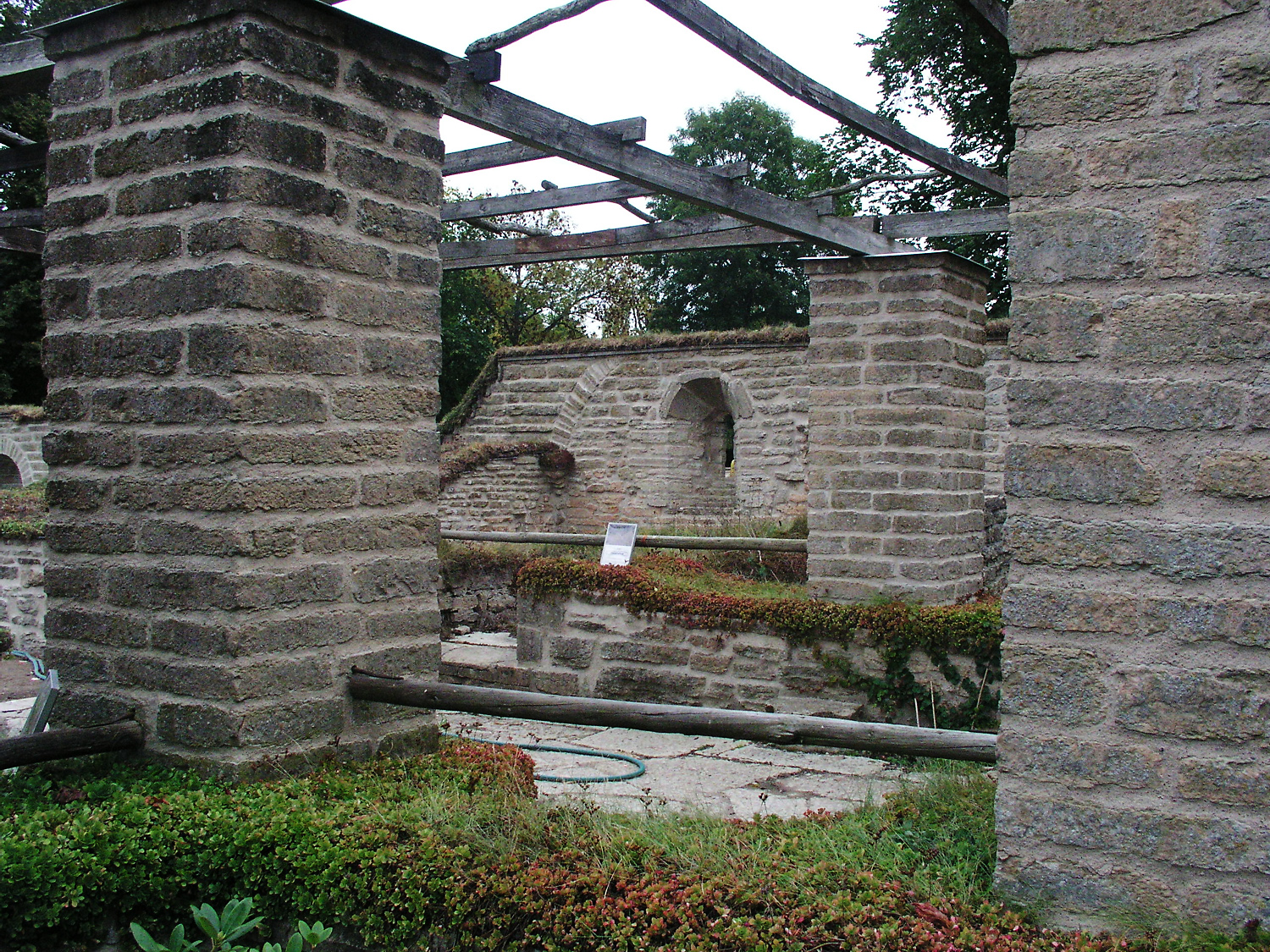 Vreta kloster. Restorated monastery walls. The photo was taken by Håkan Svensson (Xauxa) the 28th September 2003.